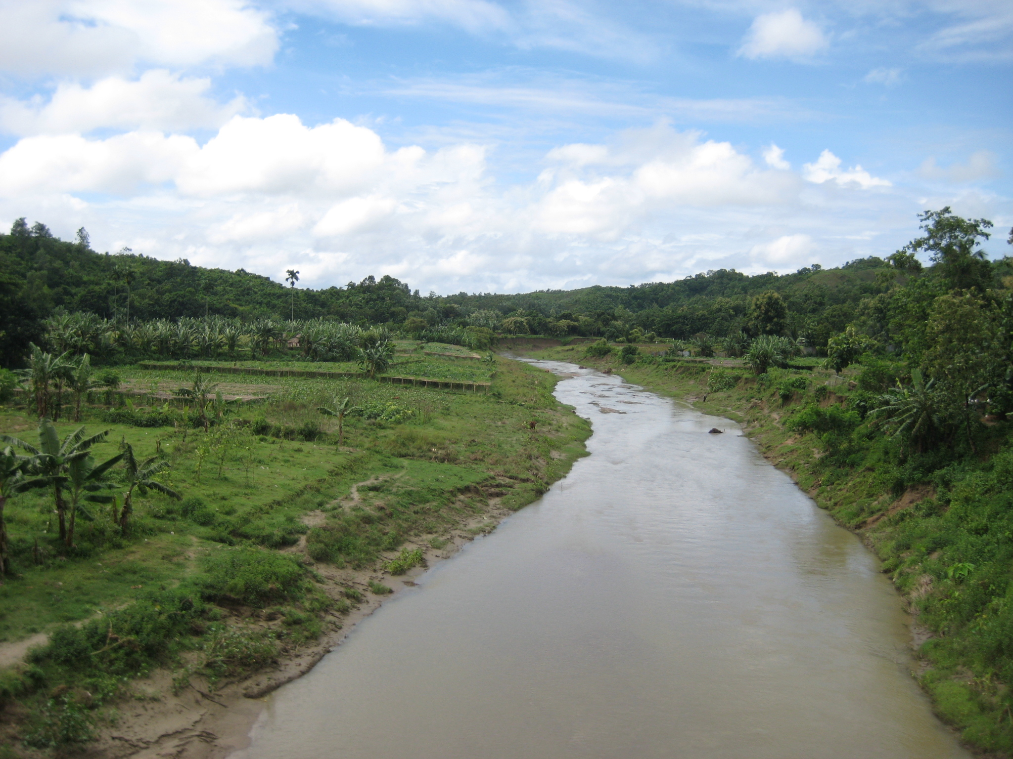 Shangu River, Bandarban